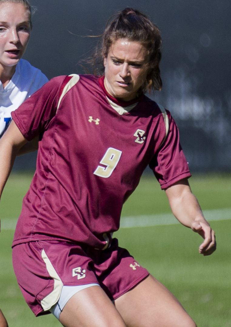 Duke Women's Soccer vs. Boston College - 2014 Senior Night